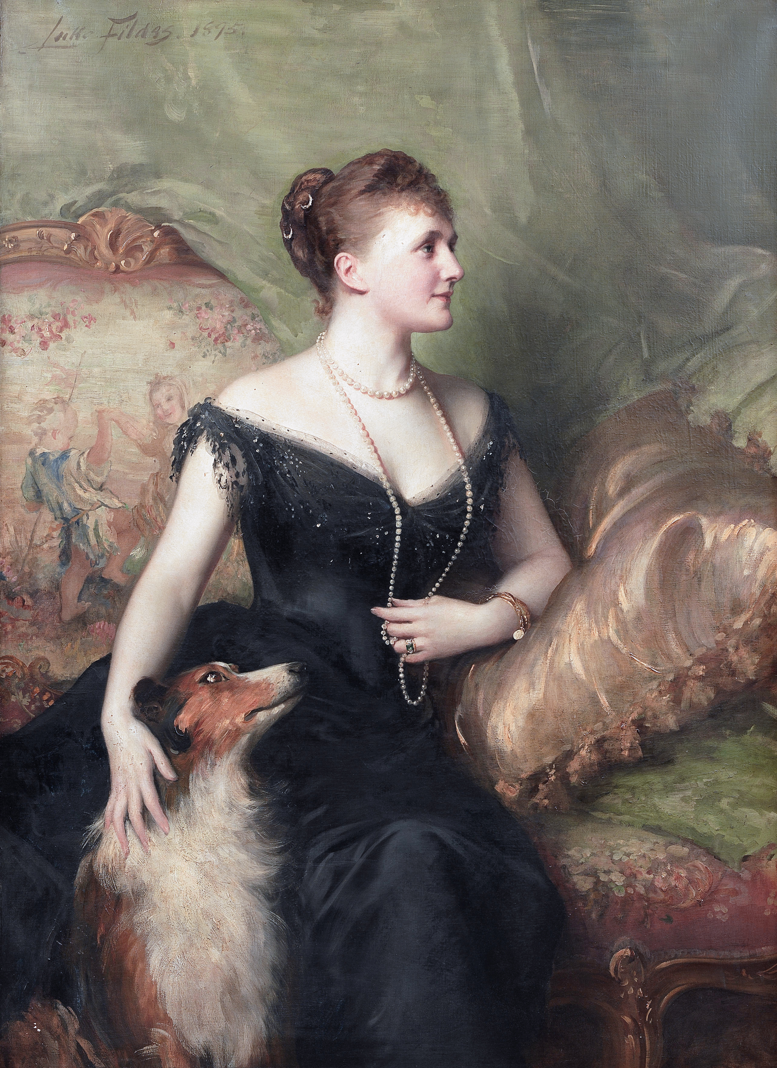 Mrs Arthur James oil on canvas 143 x 105 cm signed t.l.: Luke Fildes. 1895 inscribed verso: Mrs Arthur James/by Luke Fildes/1895